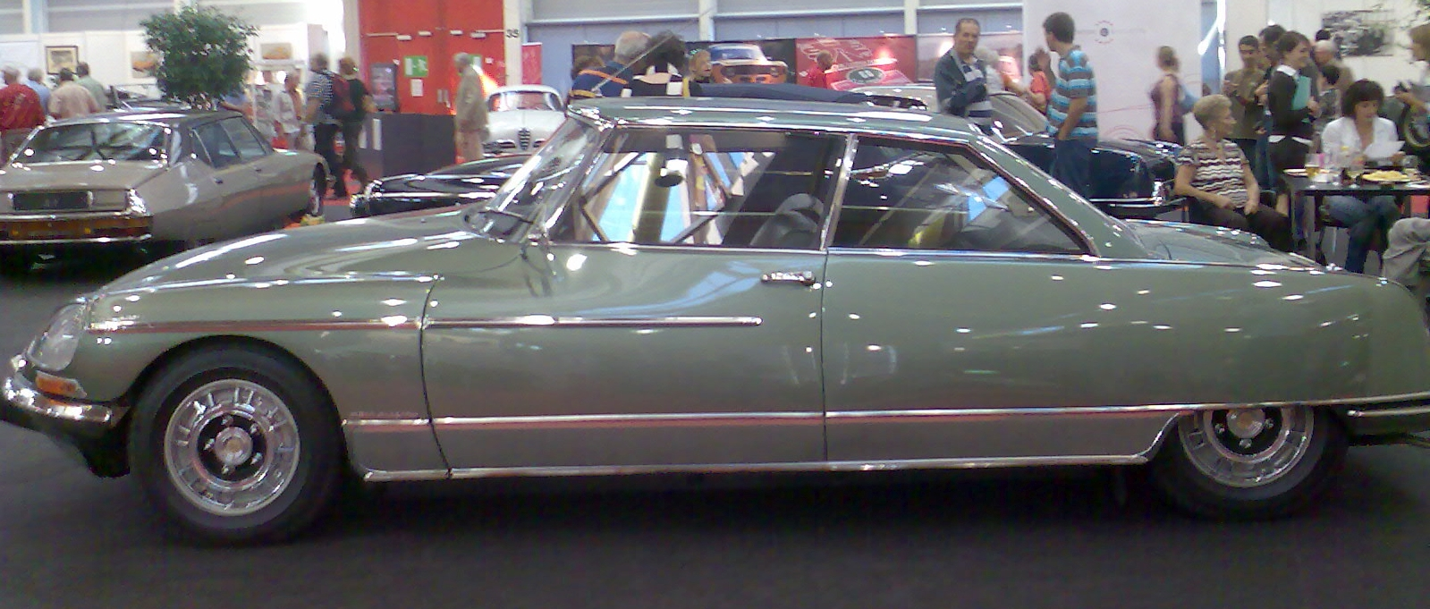 Cropped Version of File:DS Pallas Tiburón Le Leman 1.jpg